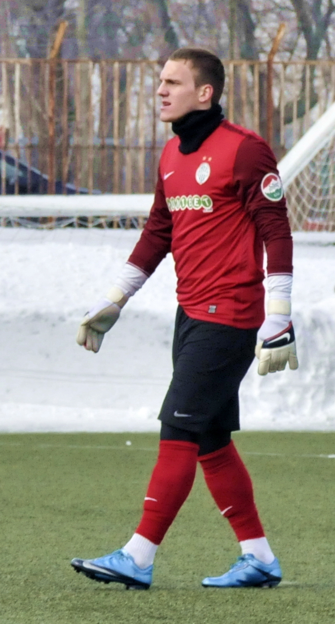 Balazs Megyeri, hungarian football player